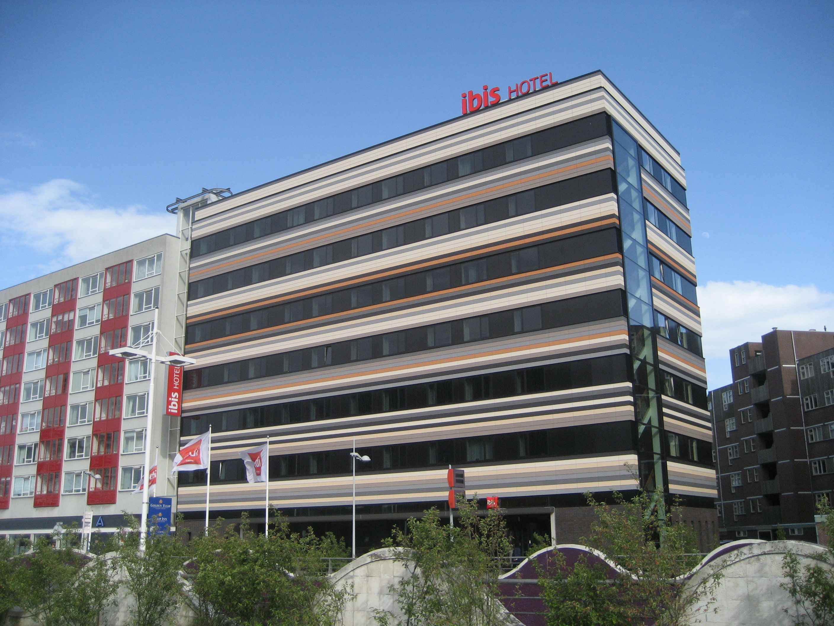 Ibis Hotel, Stationsplein, Leiden (The Netherlands)